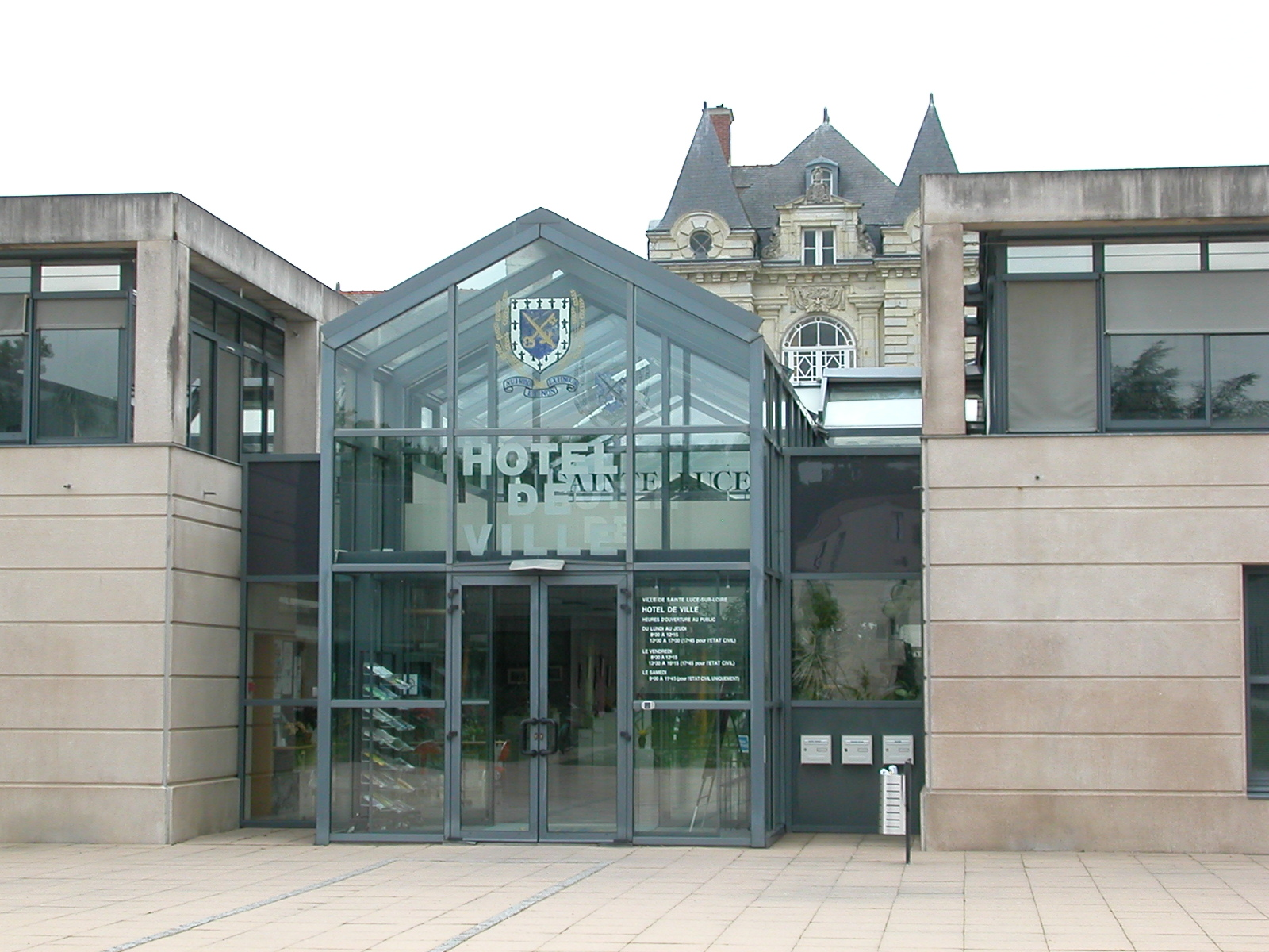 Town hall of Sainte-Luce-sur-Loire